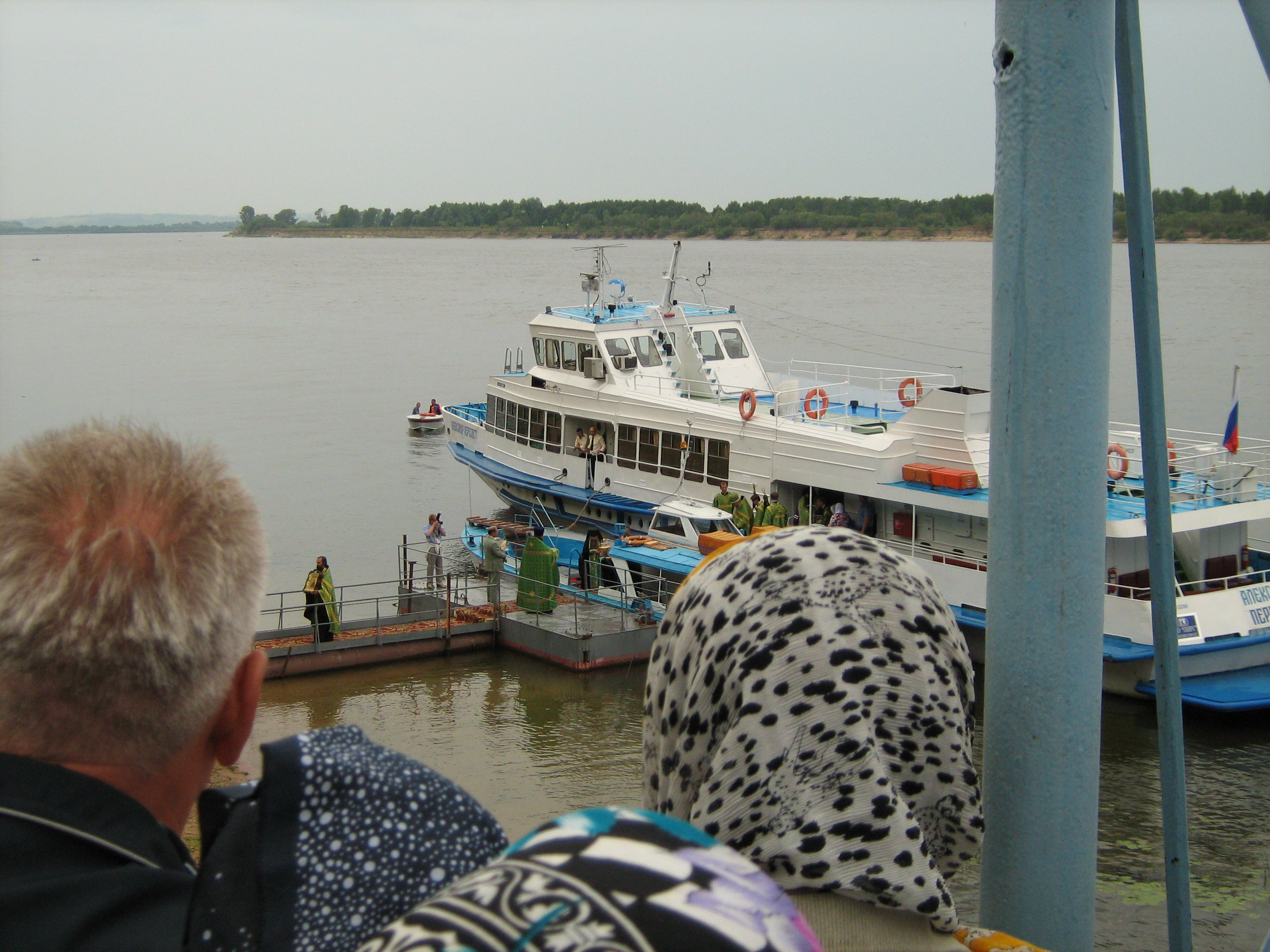 The Honorable Head of Venerable Macarius (in the golden reliquary held by Archbishop Georgy of Nizhny Novgorod and Arzamas) visits the city of Kstovo during its transfer from Niznny Novgorod to Makariev Monastery. The city officials and priests are meeting the relic, which has arrived from the Nizhny by boat. A couple of guards in a small boat to the left are providing maritime security. (August 4, 2007)